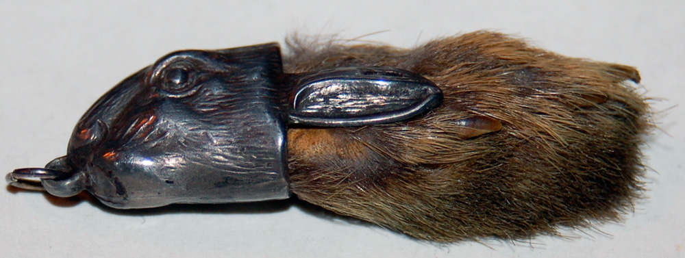 Victorian rabbit's foot with silver mounts thought to bring luck.